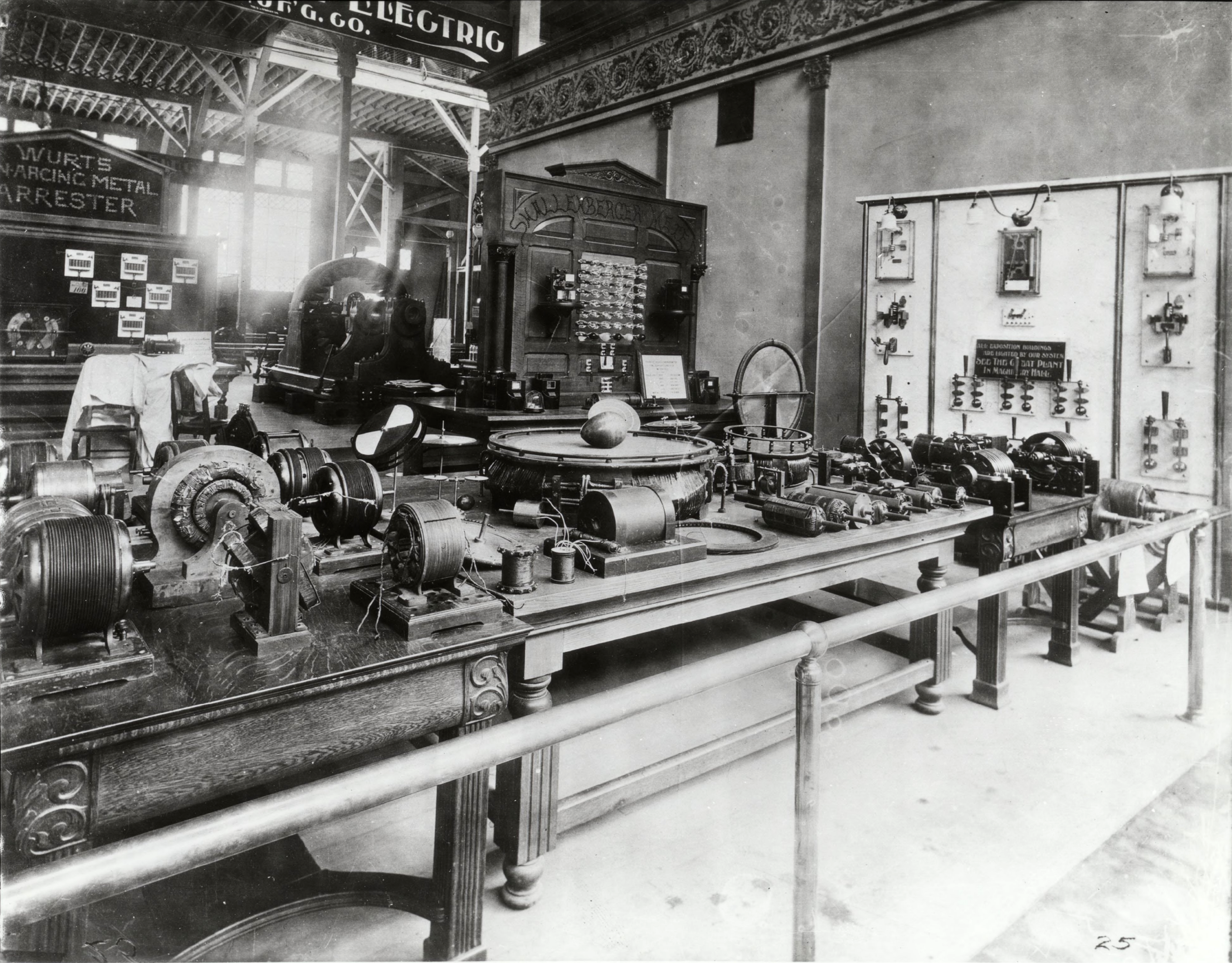 Westinghouse Electric Corporation exhibit of electric motors built on Nikola Tesla's patent, and demonstrations of how they function, at the 1893 World's Columbian Exposition (World's Fair) in Chicago, Illinois, USA. Also exhibited (front, center) are early Tesla Coils and parts from his high frequency alternator.